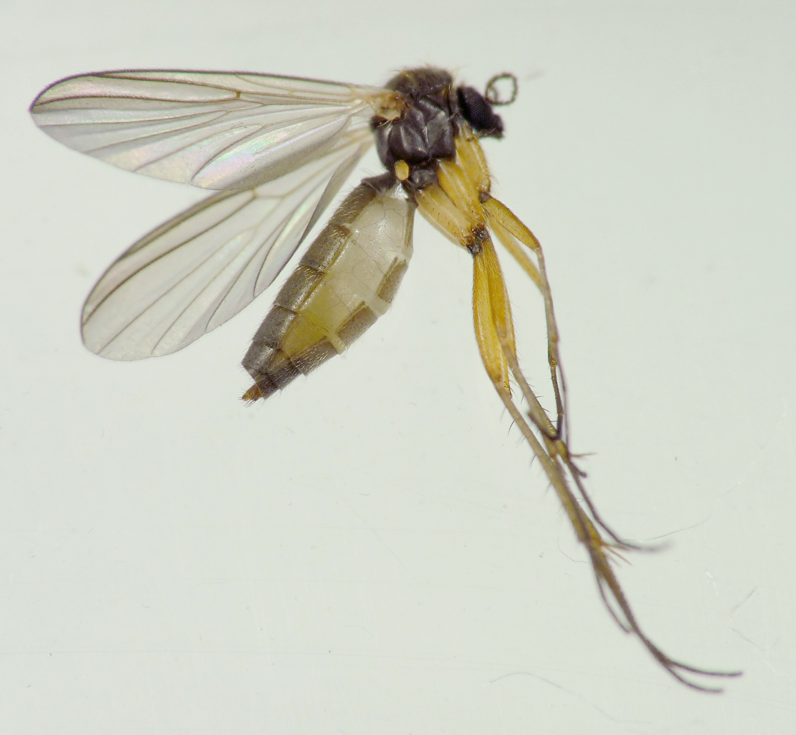 Boletina nigricans female